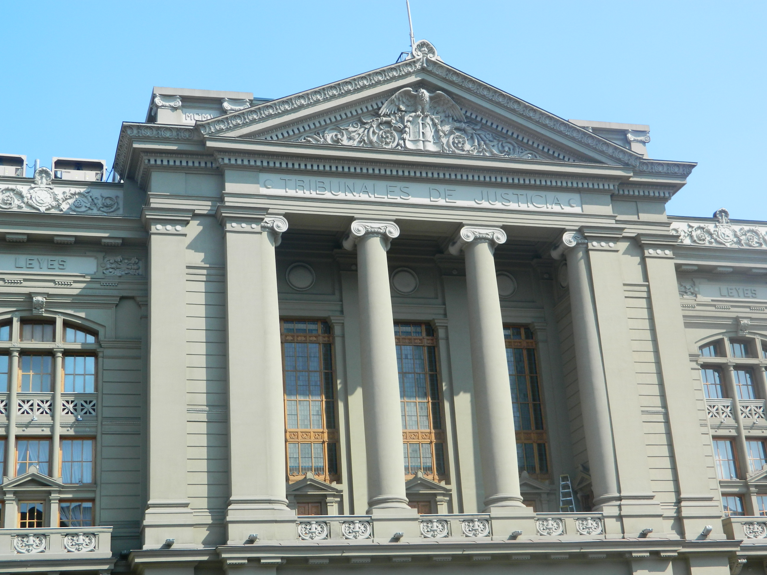 Palacio Tribunales de Justicia, Santiago, Chile This is a photo of a national monument in Chile: 828